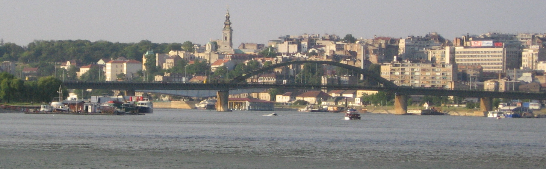 Old Sava bridge oveer the Sava river near downtown Belgrade